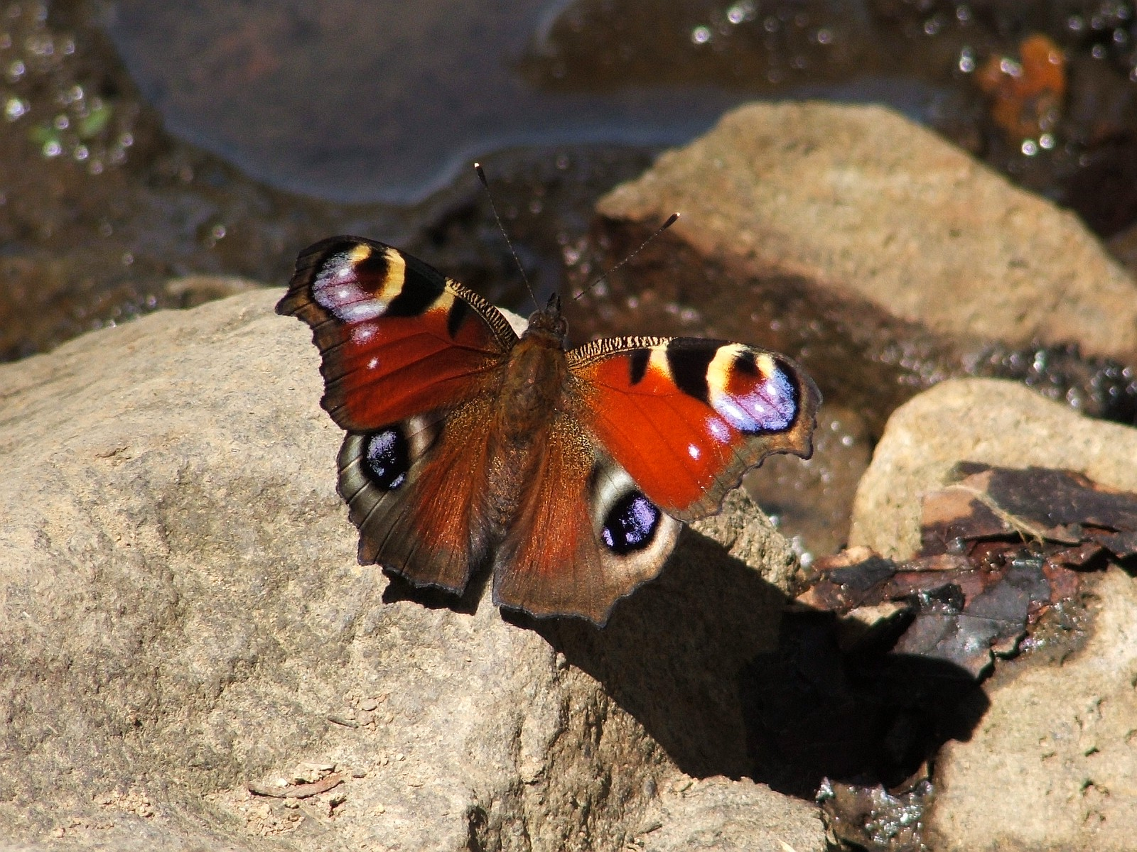 Inachis io in the Mátra mountains, Hungary.